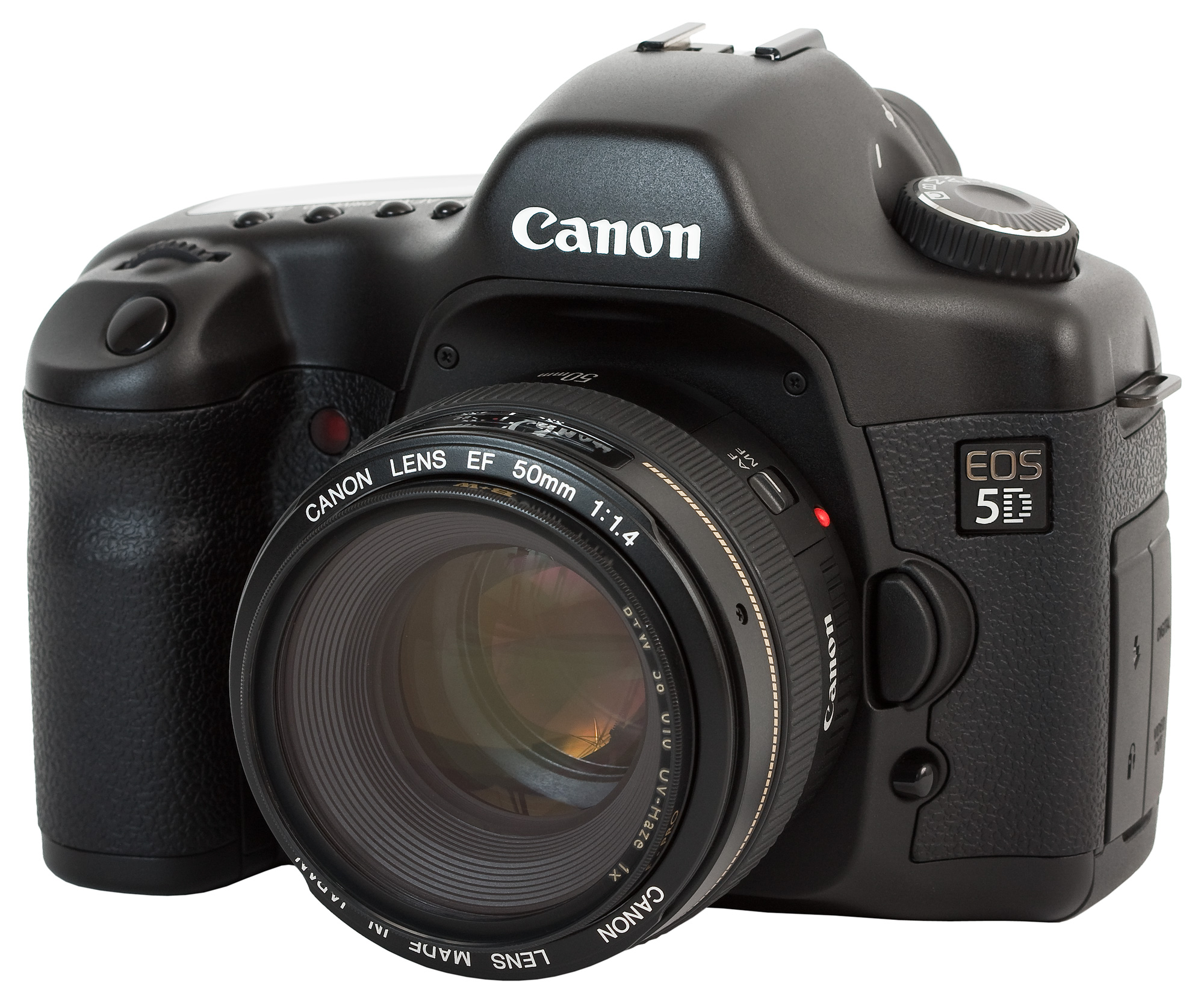 Canon EOS 5D camera, with Canon EF 50mm f/1.4 USM lens (fitted with a B+W 010 UV-Haze 58mm filter).